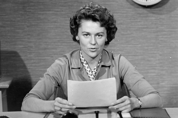 Gun Hägglund (March 2, 1932 – August 19, 2011), Swedish television host and translator. Hägglund is sometimes recognized as the first female television news anchor in the world, hosting the Swedish national evening news show Aktuellt in 1958.